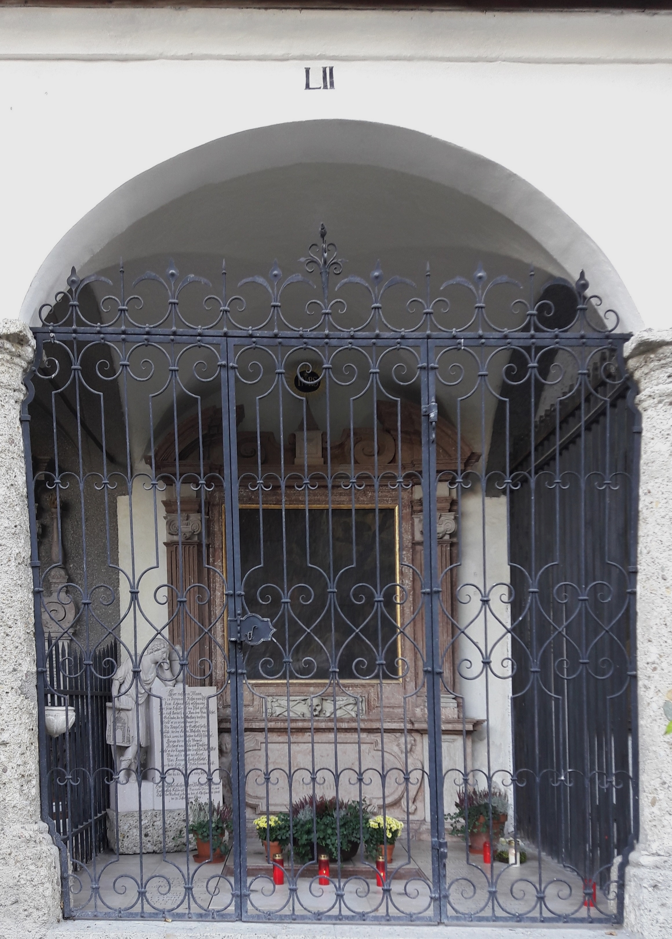 Crypt 52 (Petersfriedhof Salzburg): originally used as burial place by the Hagenauer family, now used as burial place for priests from the Archdiocese of Salzburg. Among those interred here are the architects Wolfgang Hagenauer (1726–1801) and Johann Georg Hagenauer (1748–1835) as well as Dr. Franz Wasner (1905–1992) who acted as priest to the Trapp Family ("The Sound of Music") and arranged some 150 of their songs. Crypt 52 must not be confused with Crypts 15 and 16, which were also owned by the Hagenauer family.